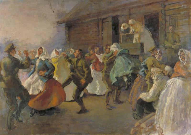 Seen at Chelmusky, North Russia, when the artist was on his way to Pujos Gora with a Russian force under Colonel Kruglyakov. image: The foreground is filled with dancing couples of peasant women and Russian troops. There is a large wooden hut behind with two women looking at the dancers from the stairs near the doorway.